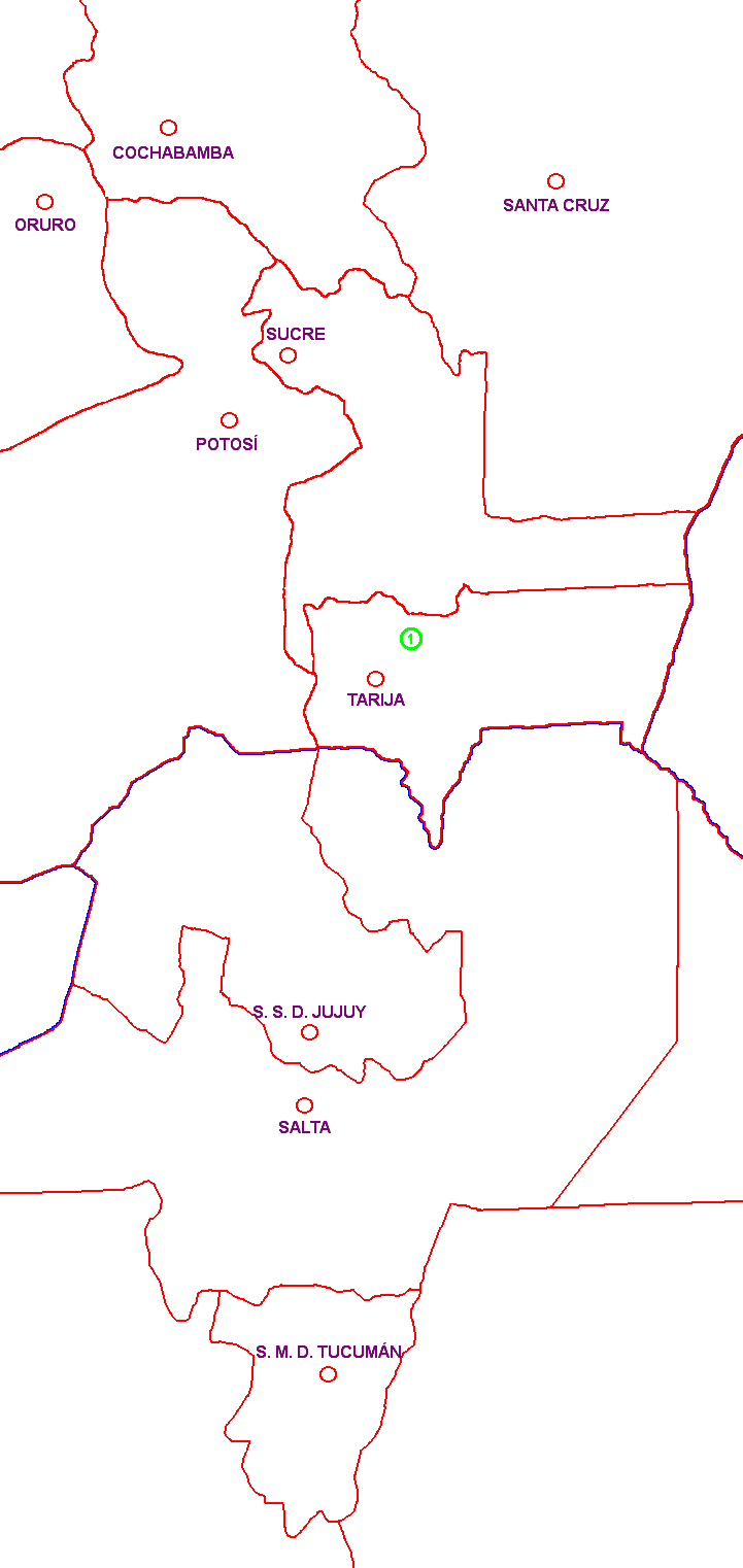 Distribution of the only self-fertile form of Rebutia fiebrigii, known as Rebutia flavistyla.